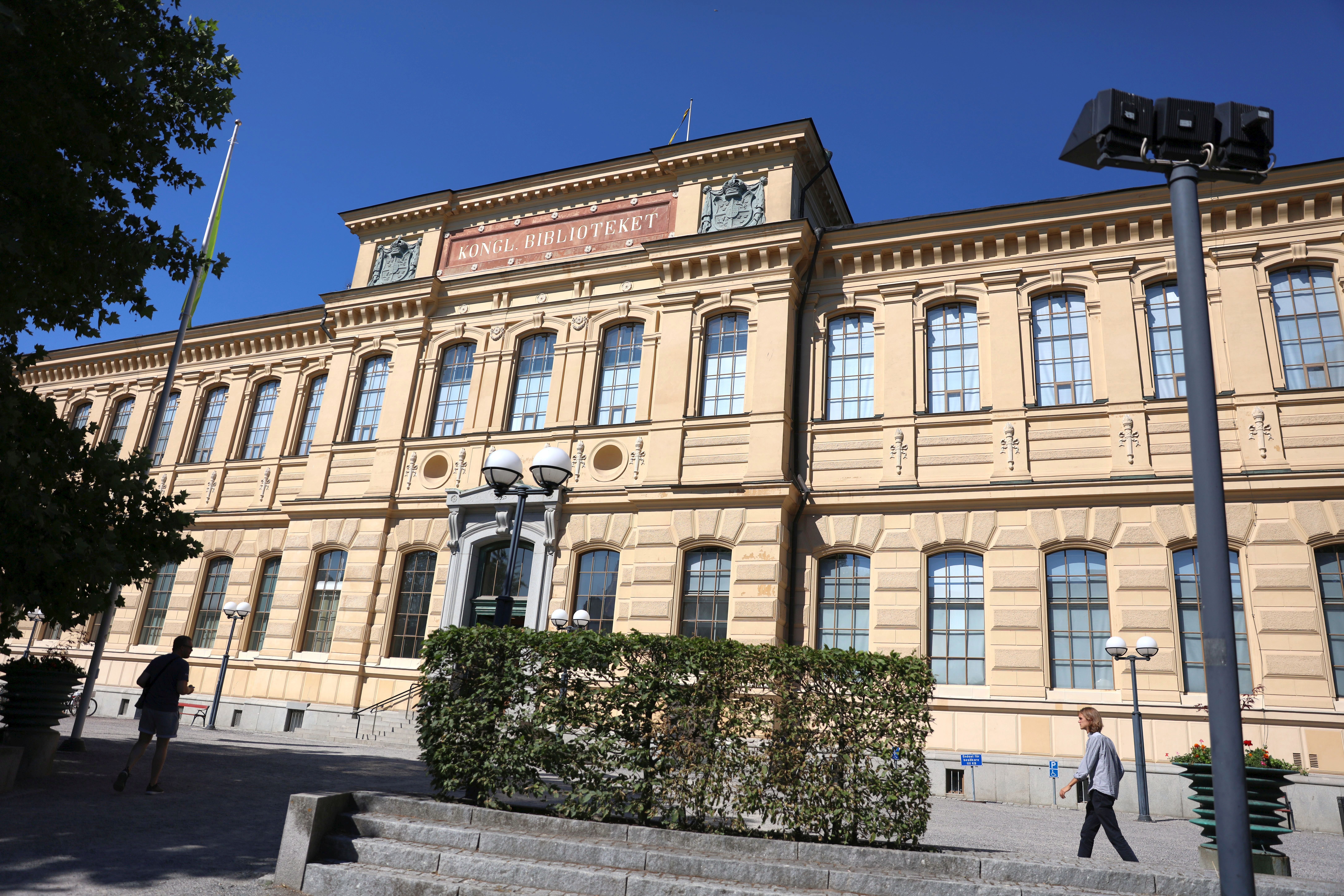 National Library of Sweden